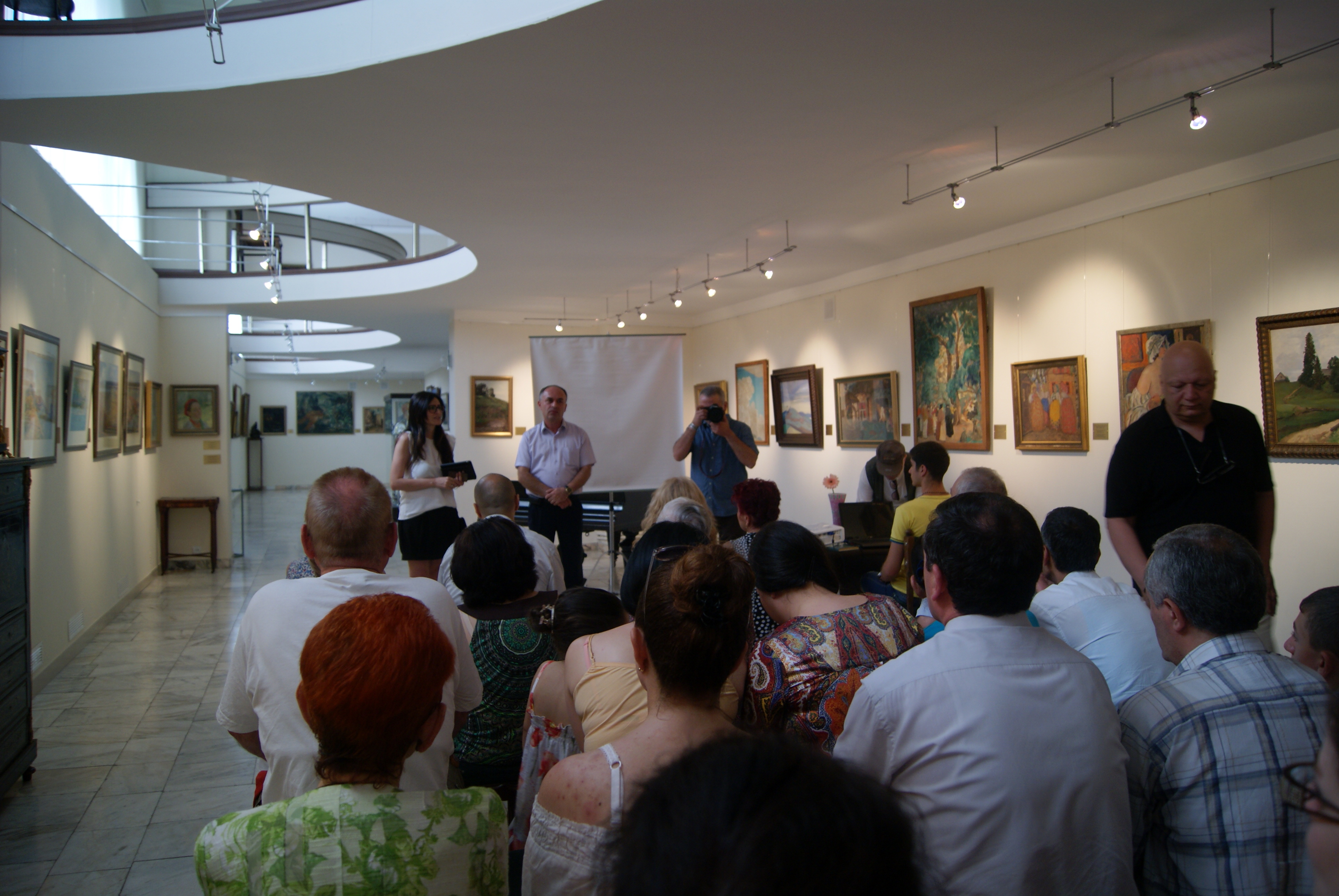 «Ղարաբաղյան օրագիր» գրքի շնորհանդեսը Երևանում, 2015